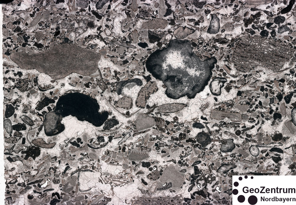 Rudstone with Sparite (Dunham-classification). Width of Picture is 36mm. Picture by courtesy of Axel Munnecke, Geozentrum Nordbayern